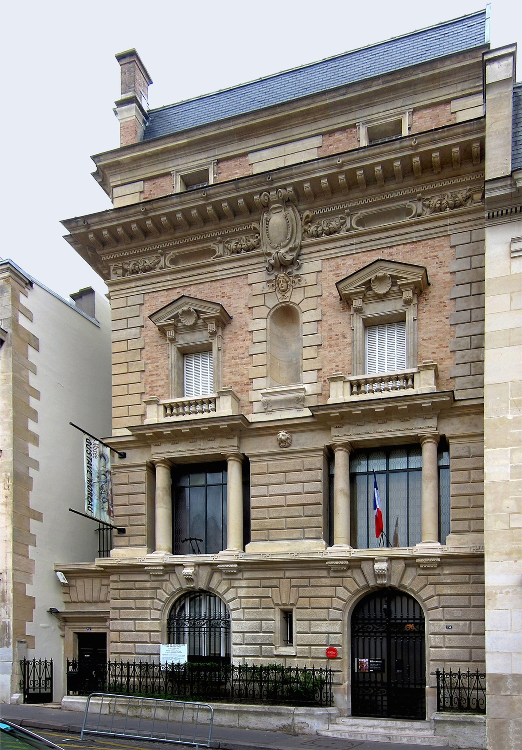 The facade of the Gustave Moreau Museum in Paris, France.